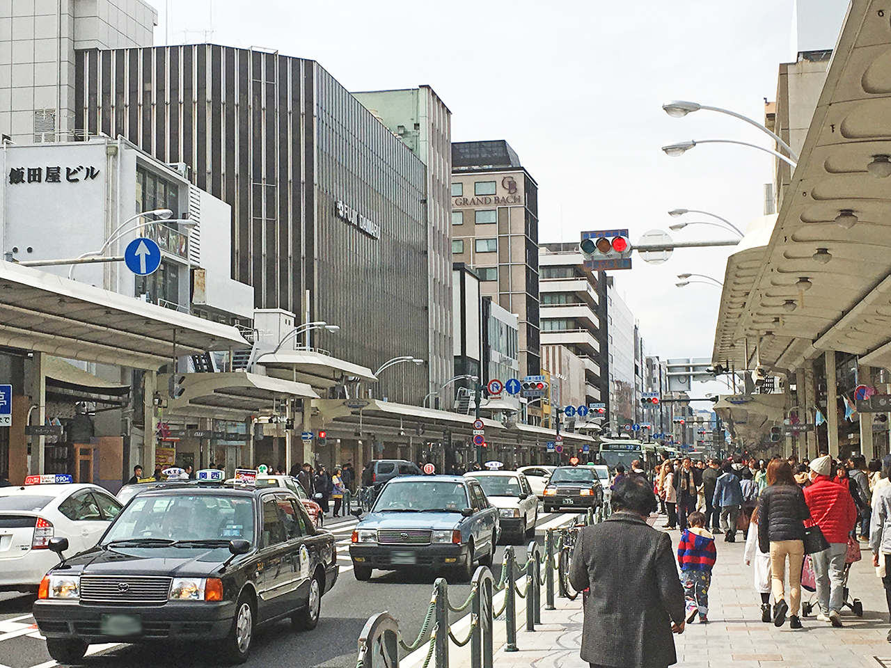 Shijo Dori